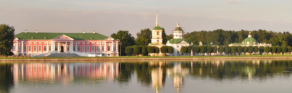 Kuskovo. Moscow.